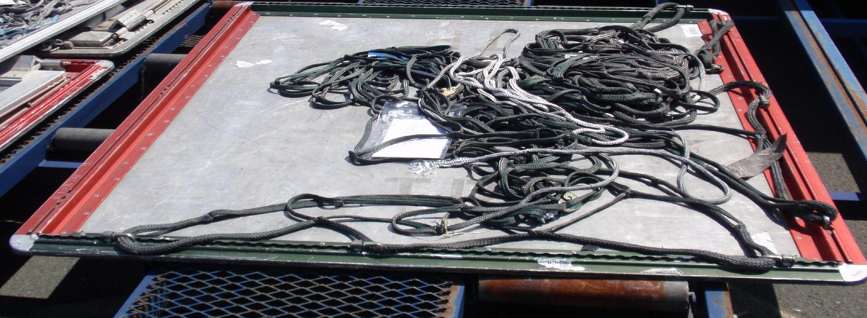 PKC_pallet for Airbus 320/321